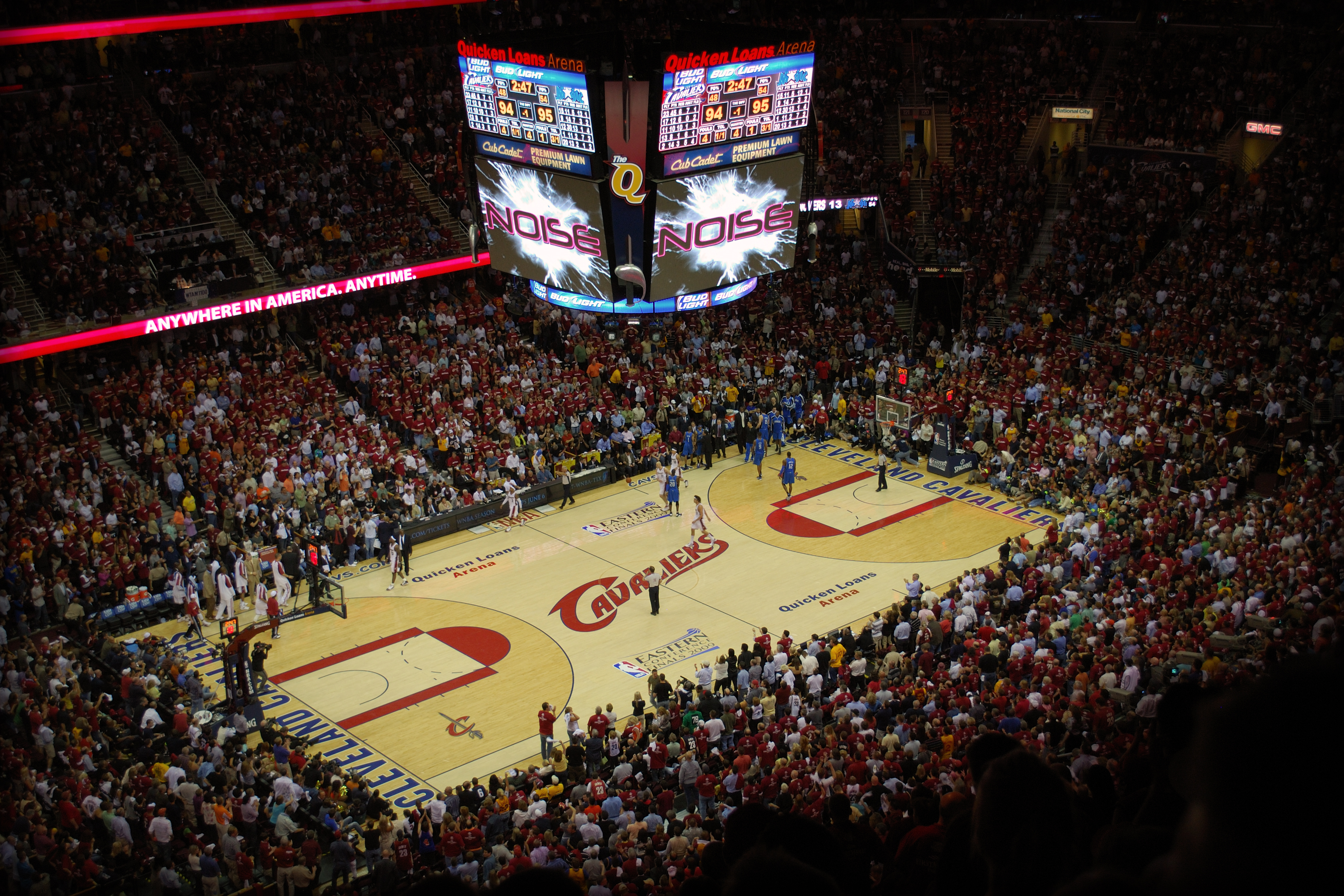 The view from section 205